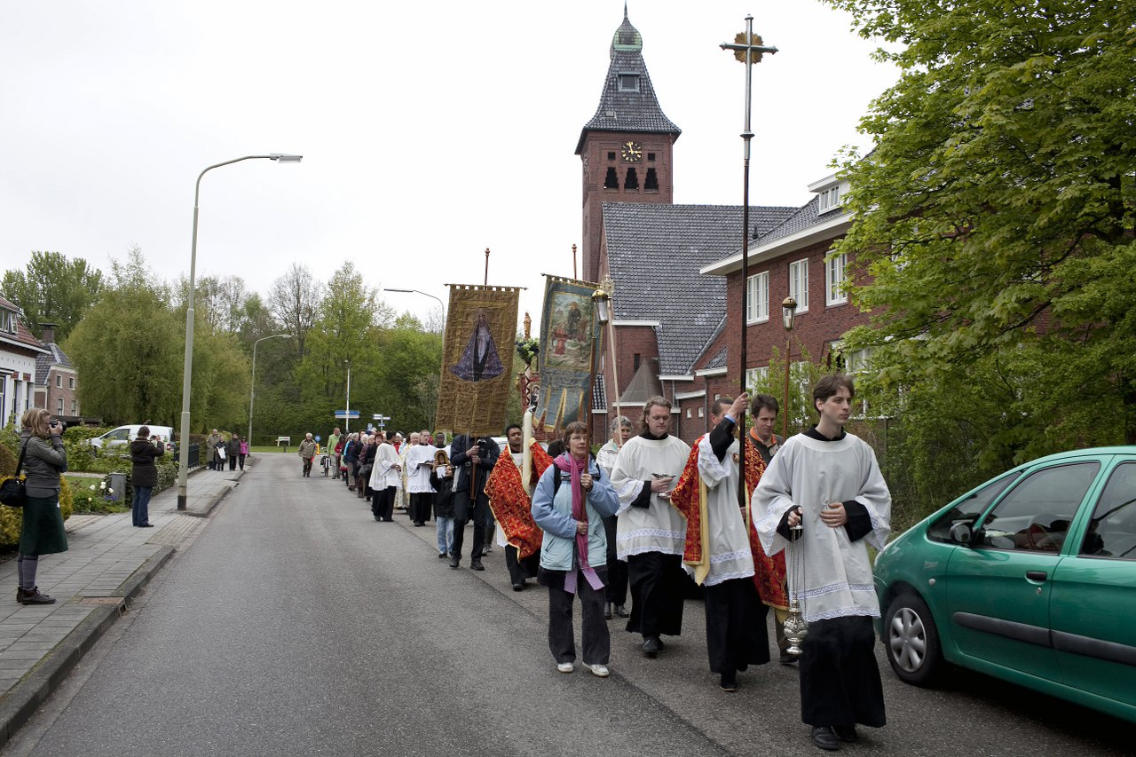 The procession to Our Lady of Warfhuizen leaves Wehe-den Hoorn